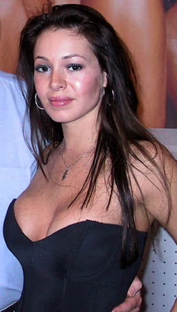 Devon Davis (Image was subsequently cropped by Tabercil to focus solely on Ms. Davis)